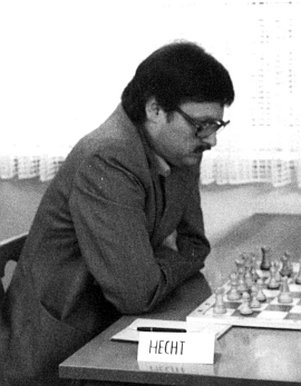 Hans-Joachim Hecht, chess grandmaster from Germany